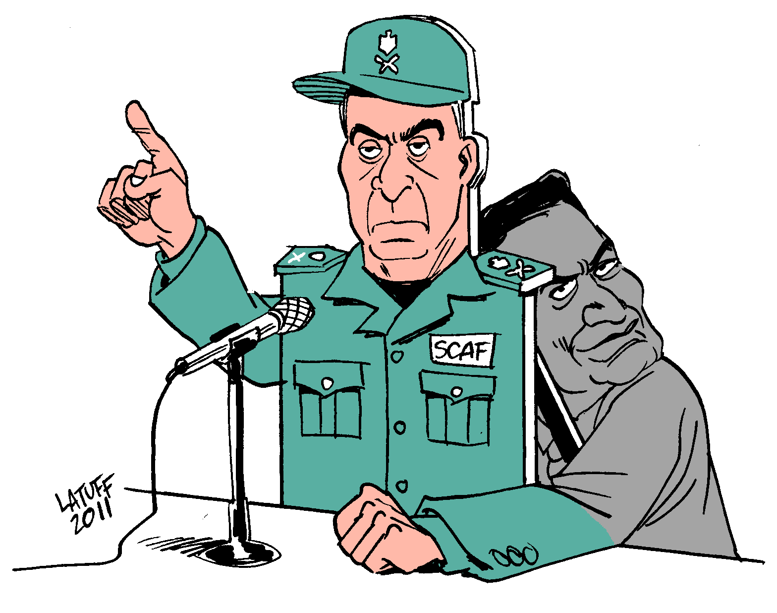 General el Fangari threatens protesters in Egypt